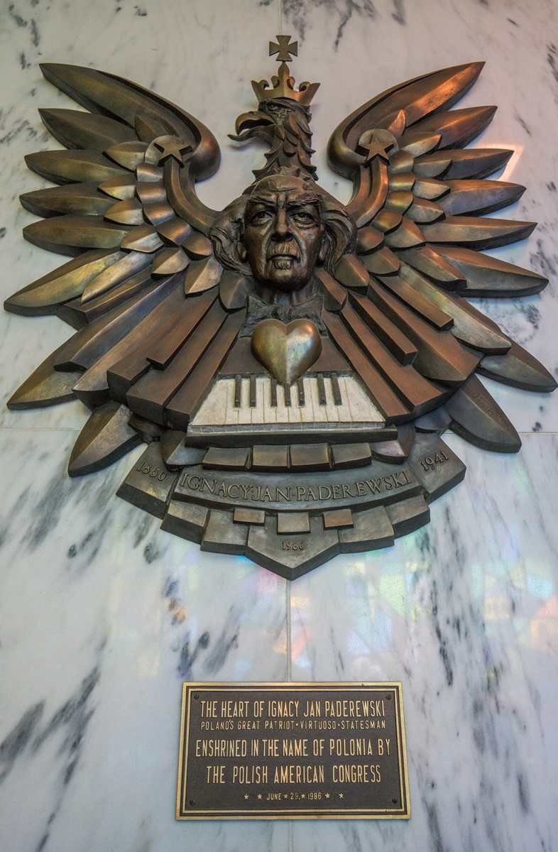 Heart of Ignacy Jan Paderewski - Shrine of Our Lady of Czestochowa (Doylestown, PA)